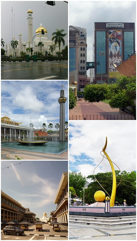 A composite image of icons of Bandar Seri Begawan from these images. Upload by Ranking Update(By epen2c on Flickr) Upload by JERRYE AND ROY KLOTZ MD Upload by Stefan Fussan Upload by Balou46 Upload by Ranking Update(By e_chaya on Flickr)